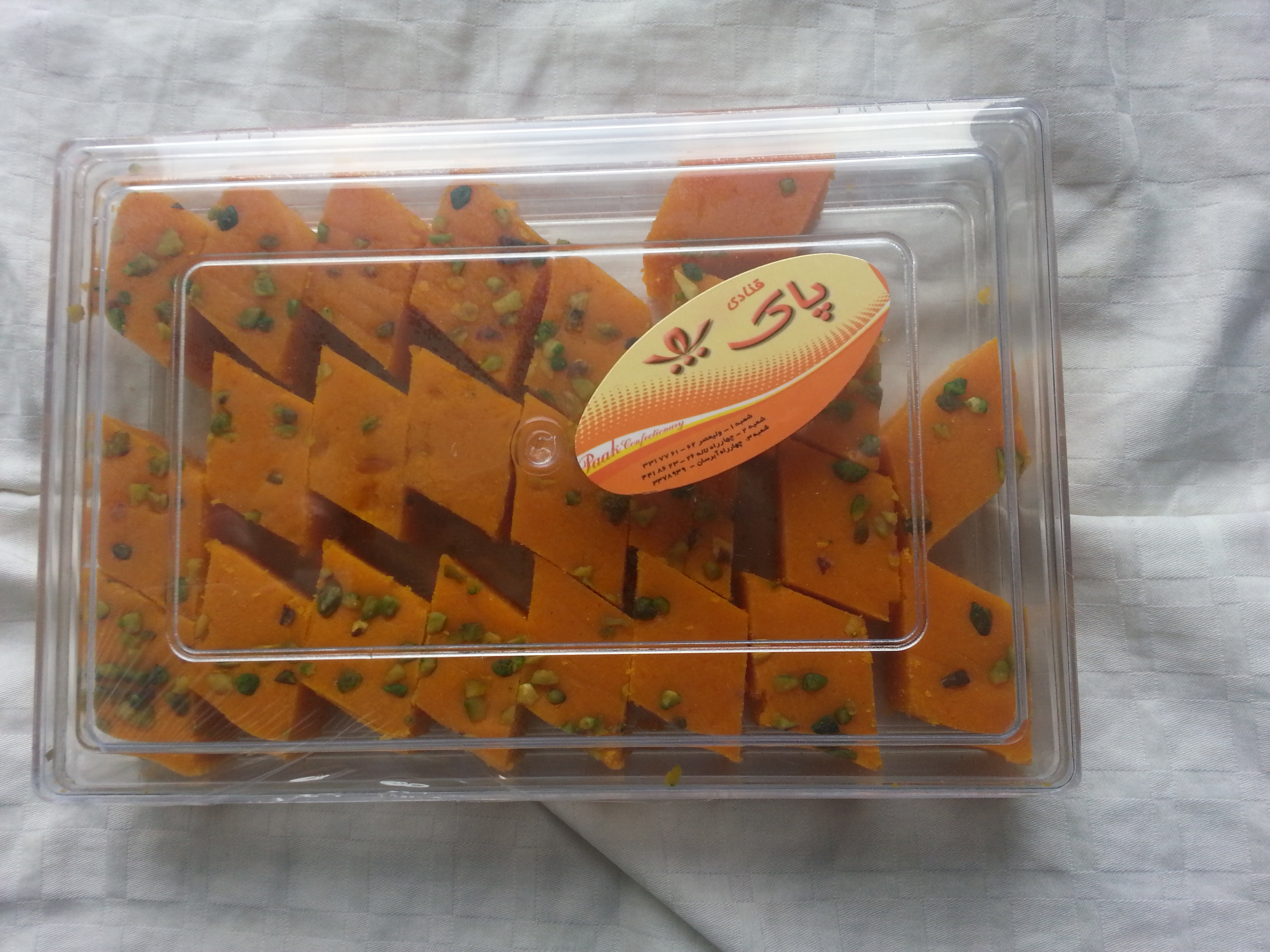 Tabrizi Lovuez is diamond shape cookies from city of Tabriz, Iran